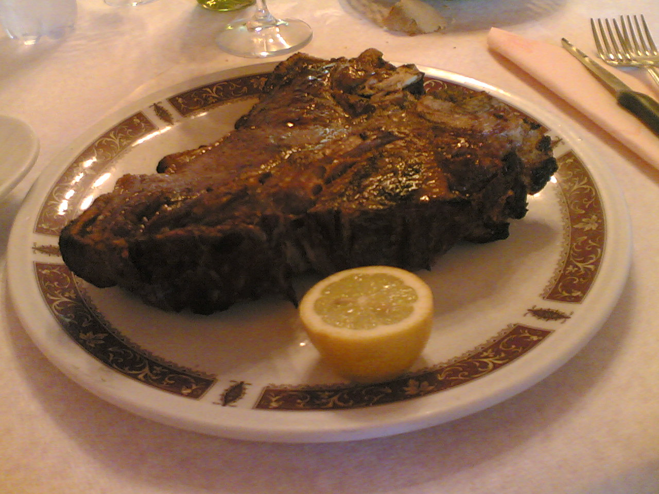 Florentine T-bone steak, 1 kilogram (2lb) - image by Microsoikos